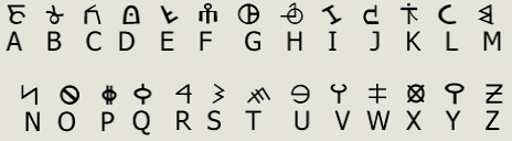 generated from a nuwaubic font Removed from the following pages: Nuwaubic --OrphanBot (talk) 07:24, 19 December 2008 (UTC)